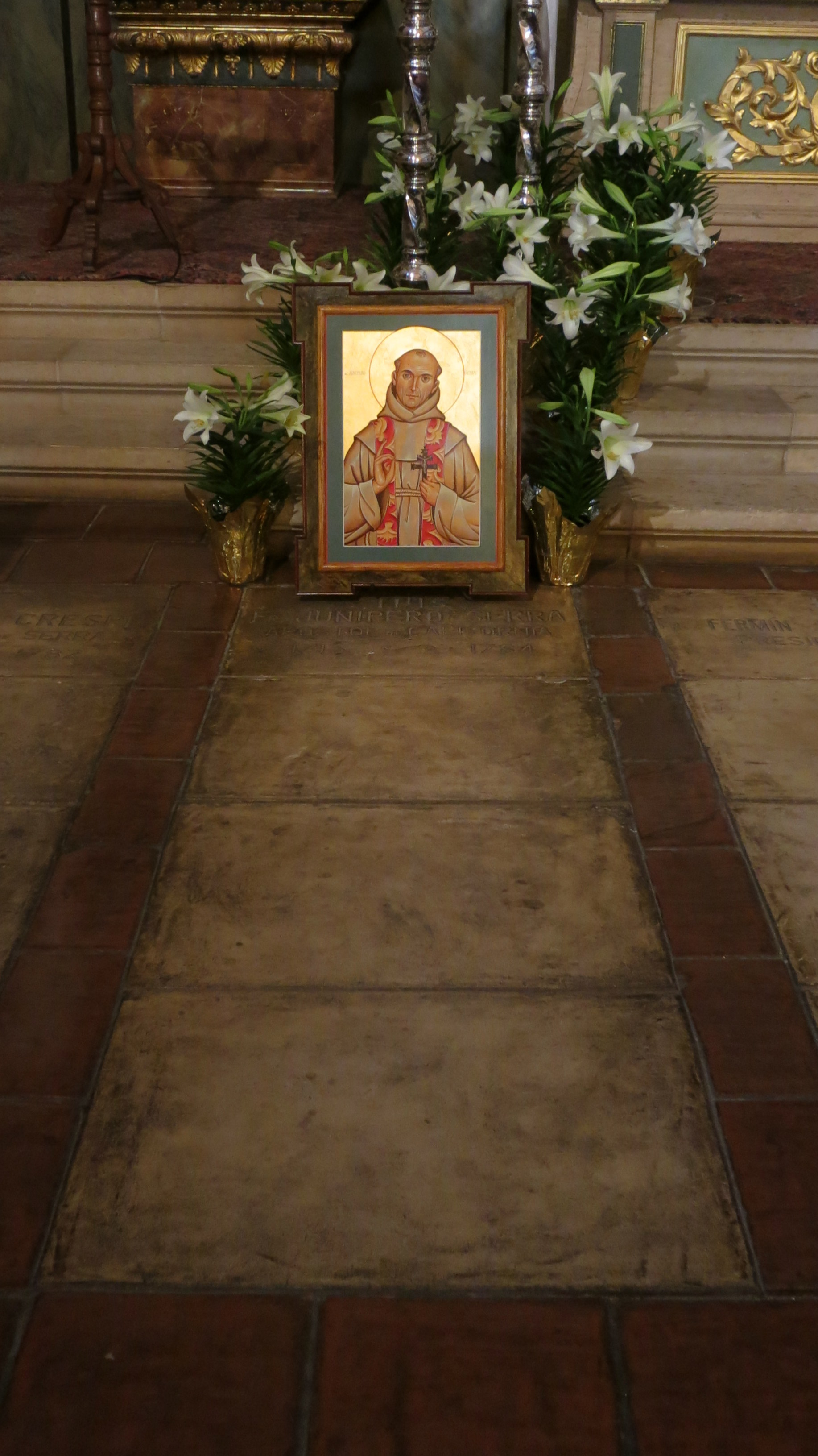 Mission San Carlos Borromeo de Carmelo (Carmel, CA) - basilica, interior, grave of Junipero Serra